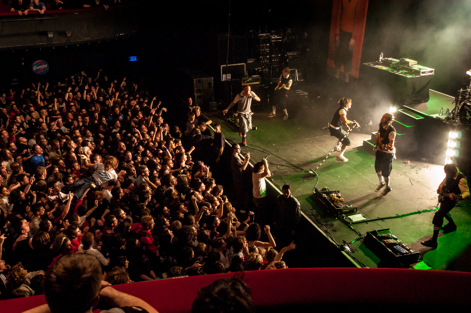 Pleymo Olympia 2004